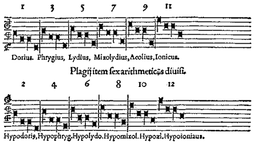 Music modes of Glareanus